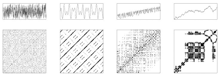 Typical examples of recurrence plots (from left to right): homogenous RP without diagonal line structures, caused by noise; periodic RP with long diagonal lines, caused by a periodic process; chaotic RP with single dots and longer diagonal lines, caused by a chaotic process (logistic map), additionally a drift is added which causes a paling of the RP; disrupted RP with extended areas of recurrence points (black points), caused by an auto-regressive process. Author: Norbert Marwan Date: 2005-12-15